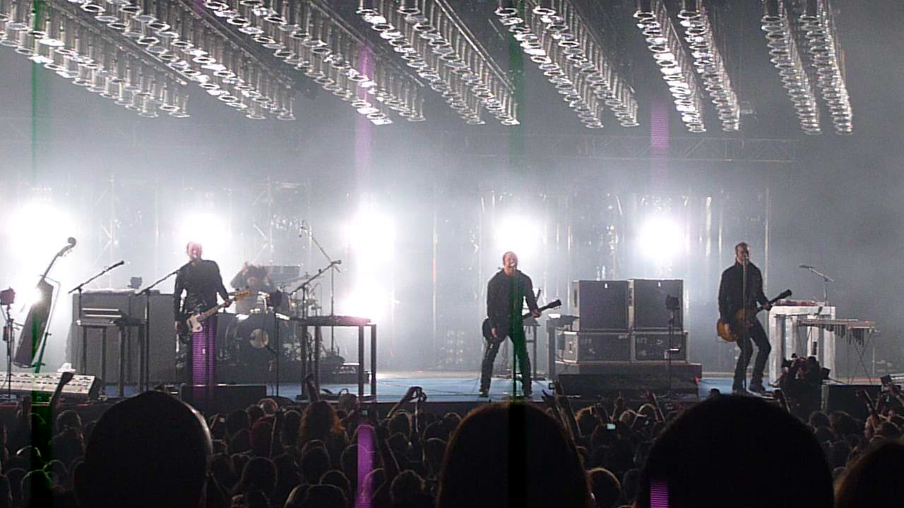 Screenshot of video taken with Charwinger21's Panasonic Lumix DMC-TZ5. Photo credit: Charwinger21.